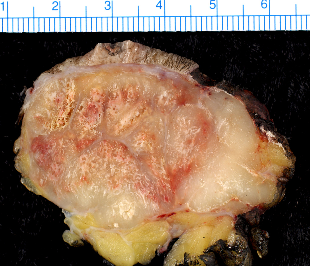 Merkel Cell Carcinoma This large tumor presented as a protuberant mass on the buttock of a 45-year-old woman. Microscopically it showed sheets of undifferentiated cells with high nuclear/cytoplasmic ratio, a high mitotic rate, a occasional inconspicuous nucleoli. Immunostains showed strong dot-like and diffuse cytoplasmic positivity for cytokeratins 20, CAM5.2, and AE1-AE3, as well as granular staining for synaptophysin and chromogranin. There were negative reactions for cytokeratin 7, gross cystic disease fluid protein 15, melan-A, S-100 protein, and thyroid transcription factor 1-alpha. Even though the histologic features and immunostain profile was characteristic of a primary skin tumor, the presentation is atypical. Usually, Merkel cell carcinoma presents on the sun-exposed areas of elderly individuals. Therefore, the pathologist recommended workup for the possibility of another primary site, including lung, female genital tract, salivary gland, and other cutaneous site.